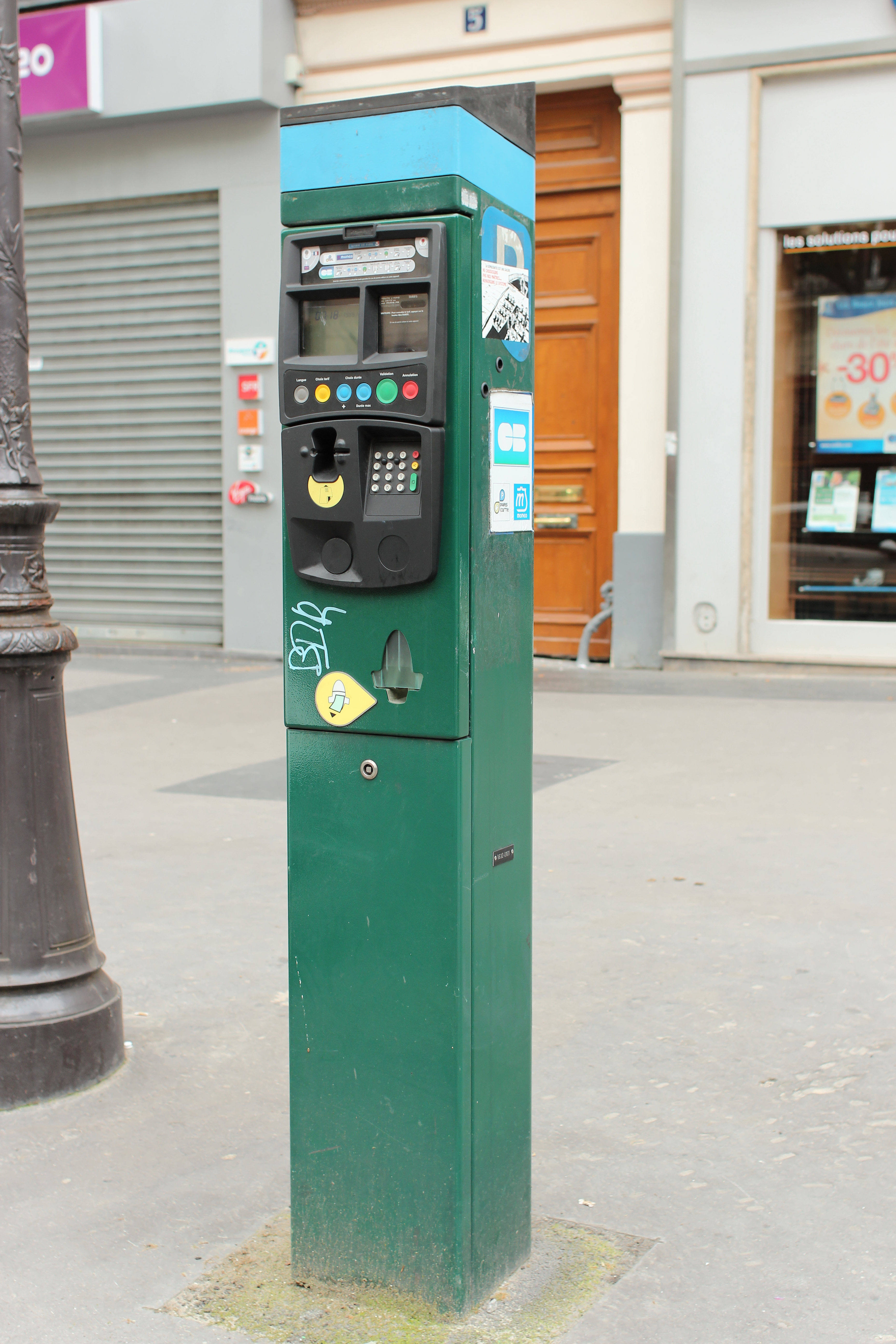 Pay and display, Boulevard Saint-Martin, Paris.